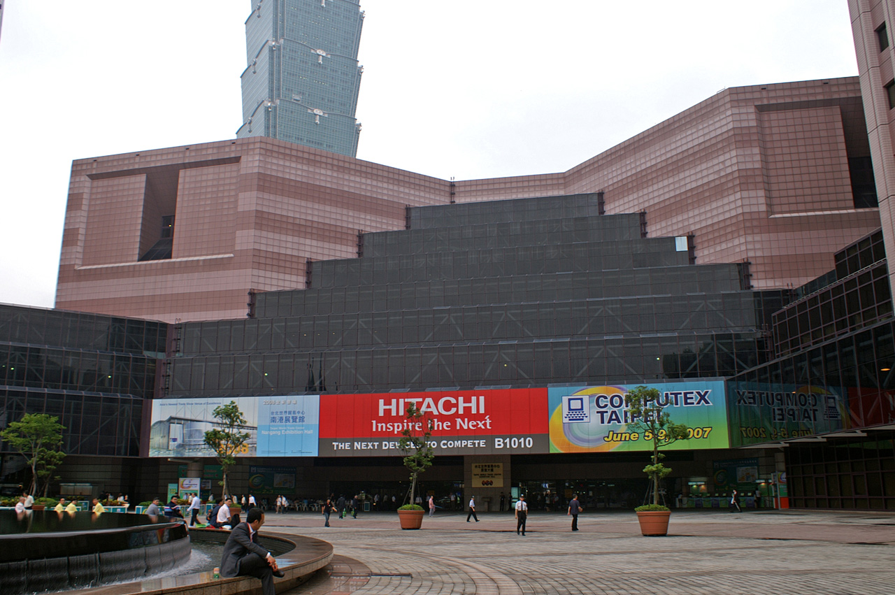 Taipei World Trade Center Keelung Road Entrance Front Side, on the glass of the mezzanine is advertised by Hitachi during Computex Taipei 2007.